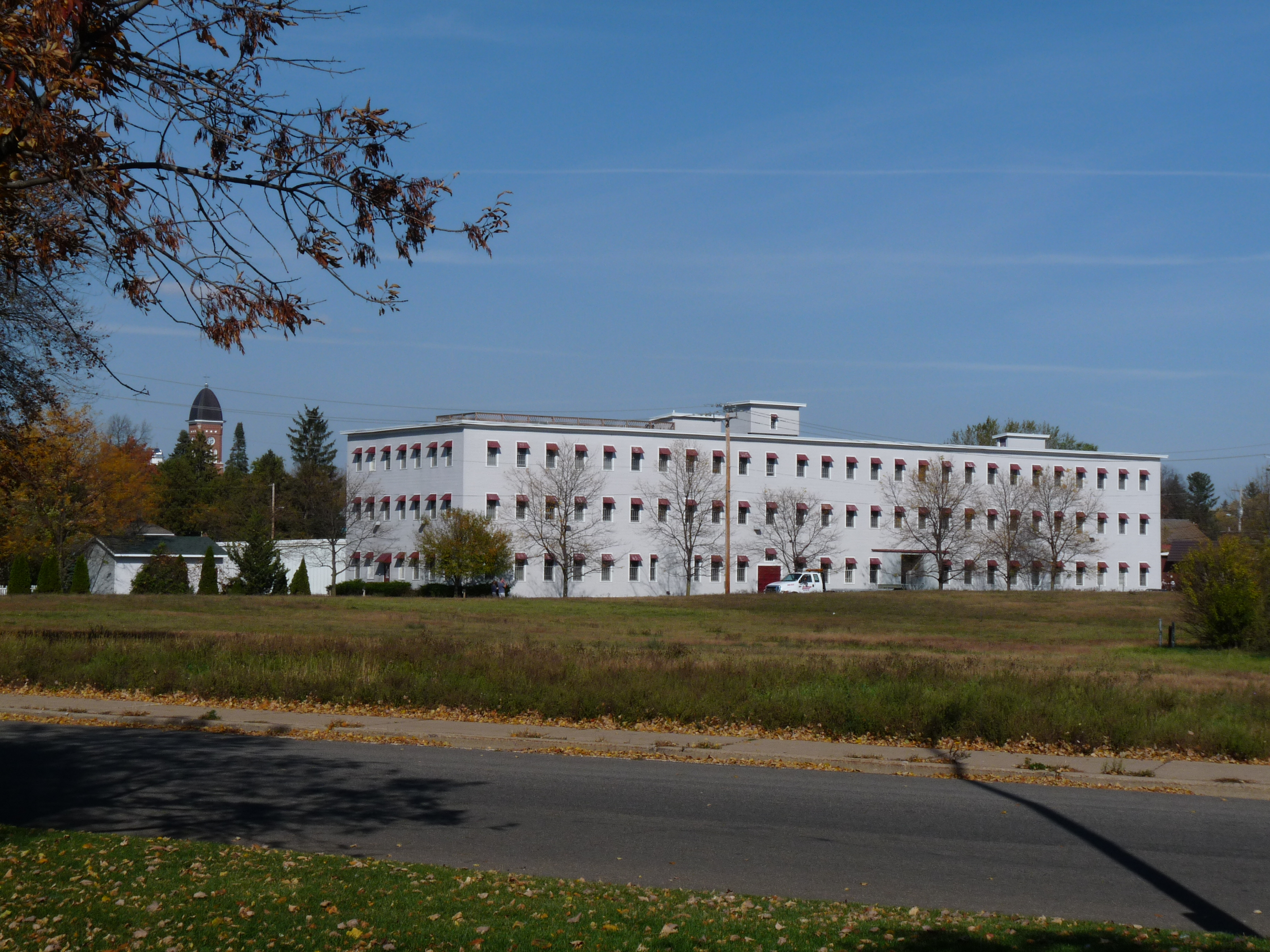 The Folding Furniture Works factory in Stevens Point, Wisconsin, was built in 1931. Also known as Lullabye Furniture warehouse and Plywood Mill, it is on the National Register of Historic Places.